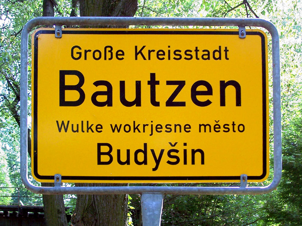 Bilingual, German-Sorbian place-name sign of the city Bautzen in Saxony, Germany.